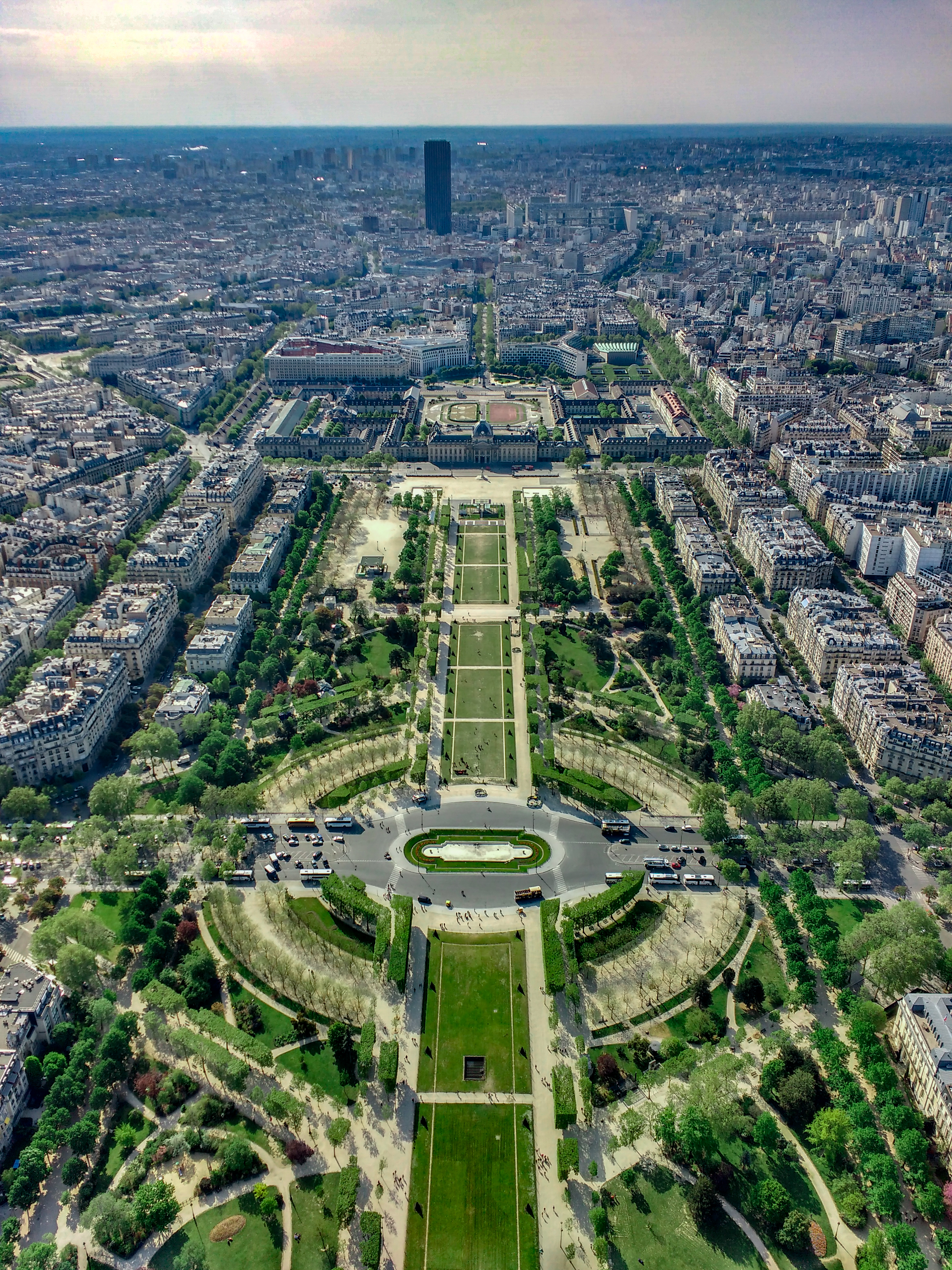 Top view of Paris from the Eiffel Tower, displaying the excellent symmetric planning of Paris city